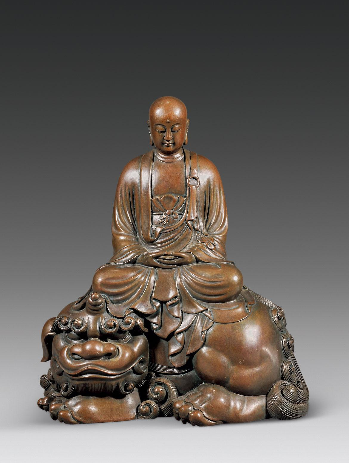 Chinese bronze sculpture of Kṣitigarbha from Qing dynasty